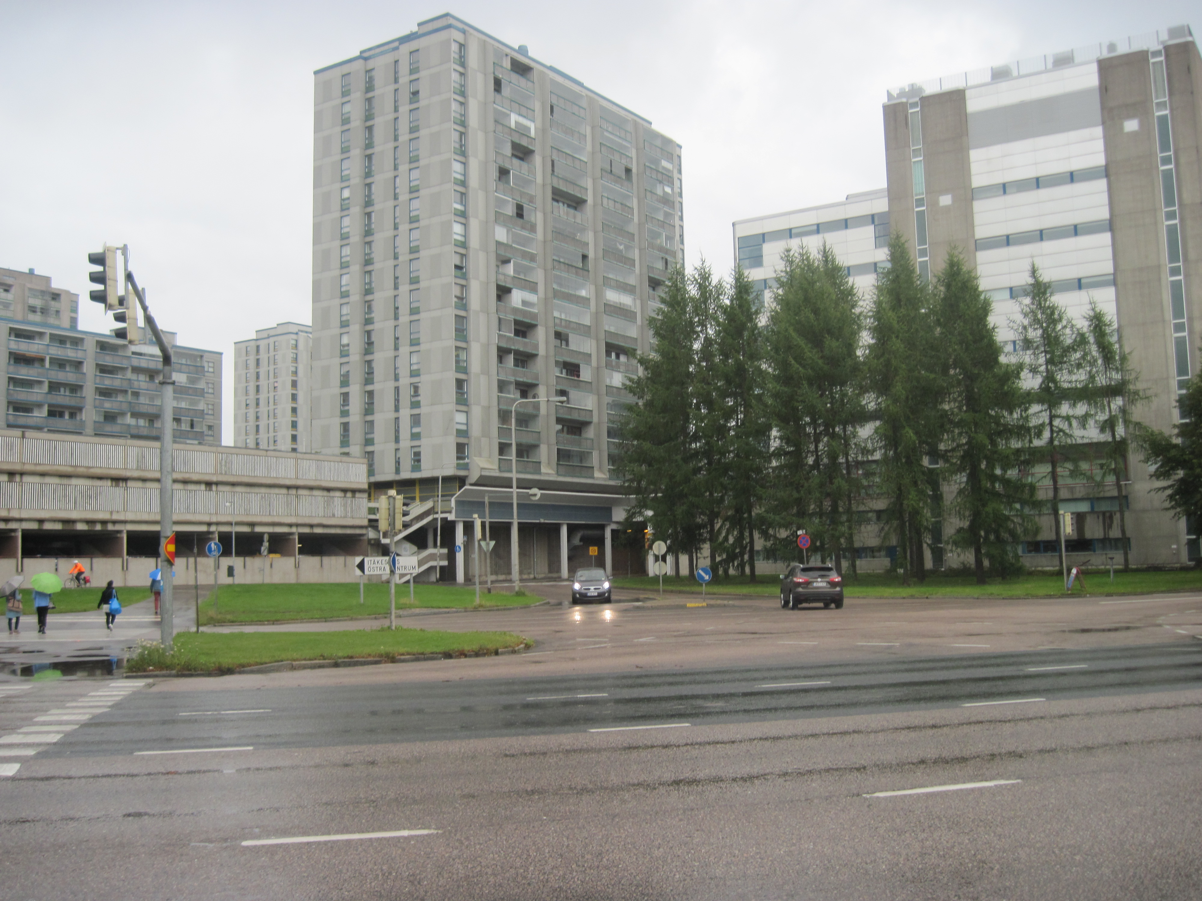 Haapaniemenkatu in Merihaka, Helsinki, South of Sörnäisten Rantatie